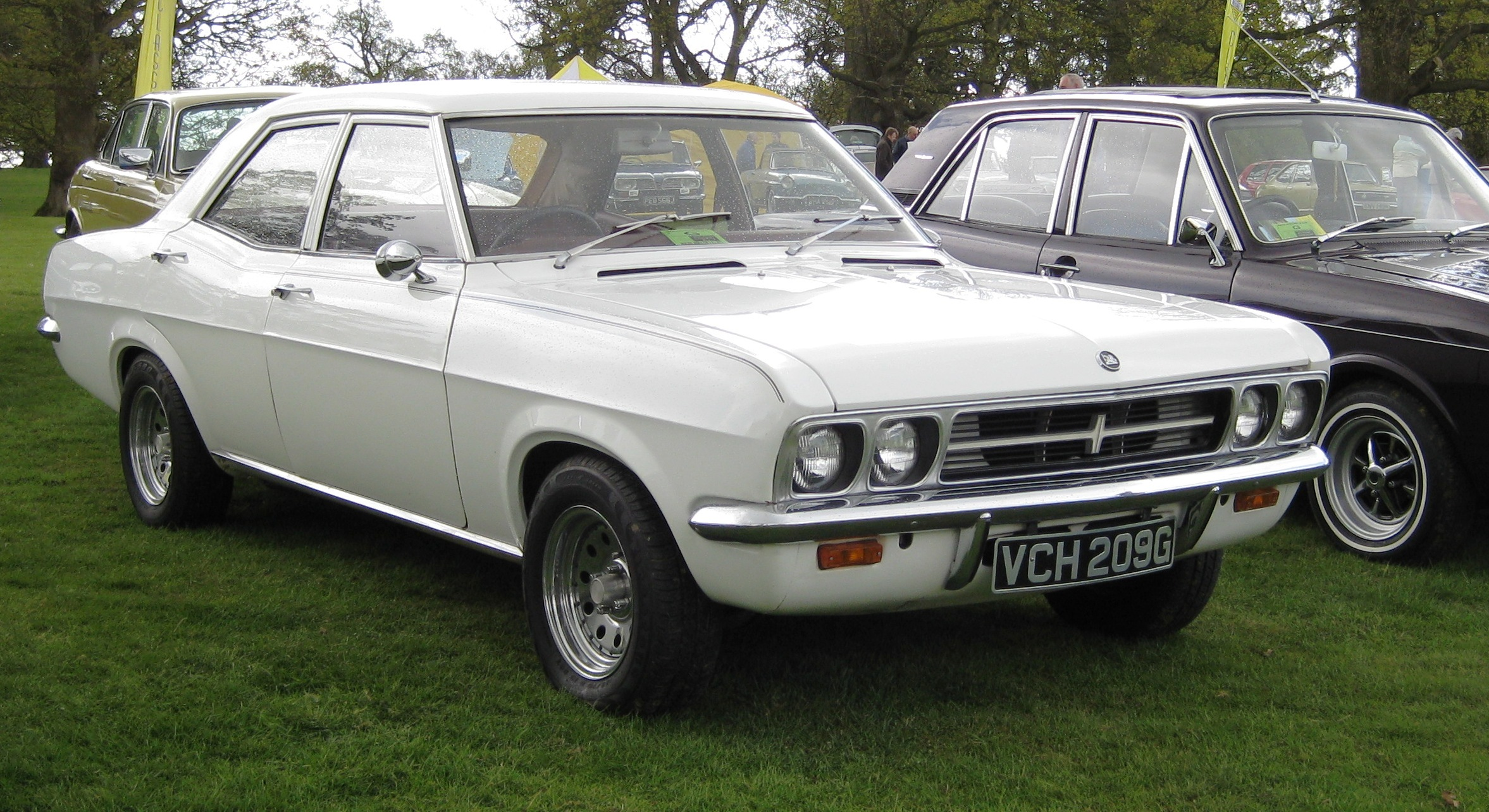 Vauxhall VX 4/90 at Oldtimerfest at Woburn